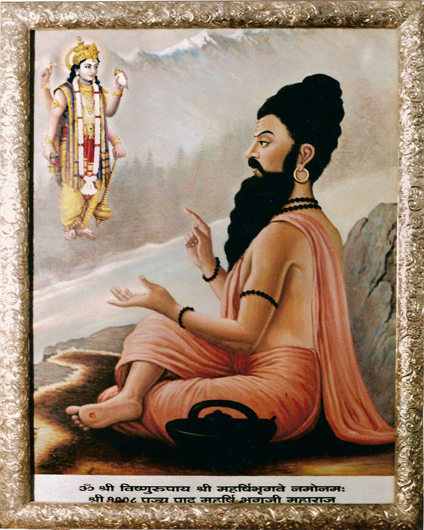 This is from the Bhrigu Stotram provided by Shrimati Satish Janardhan Sharma and Dr. Pandit Ramanuj Sharma of 68, Railway Mandi, Hoshiarpur, Punjab, India. Telephone --0091 9814251675